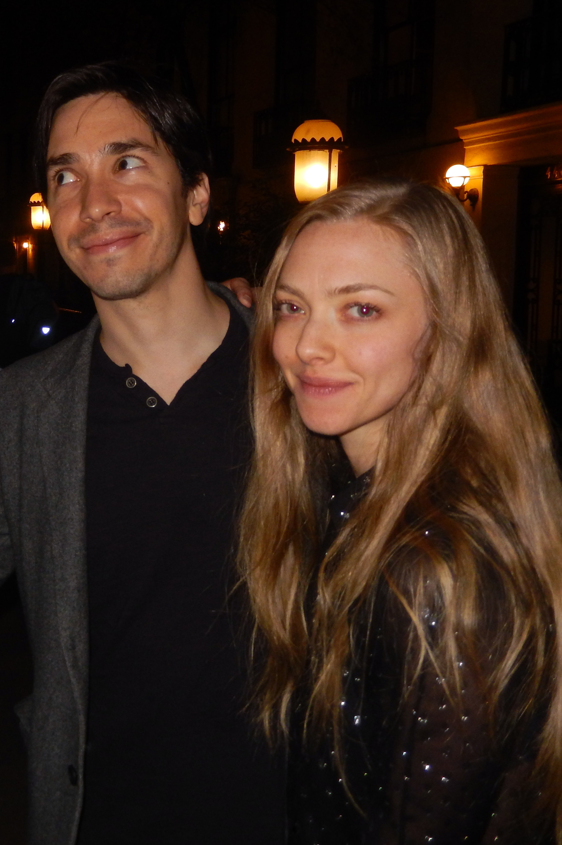 Justin Long and Amanda Seyfried on the streets of New York. Both were extremely friendly and cool, thanks for the photo! 4/17/2015